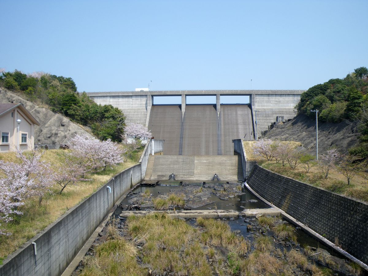 Isanoura-dam,Saikai,Nagasaki